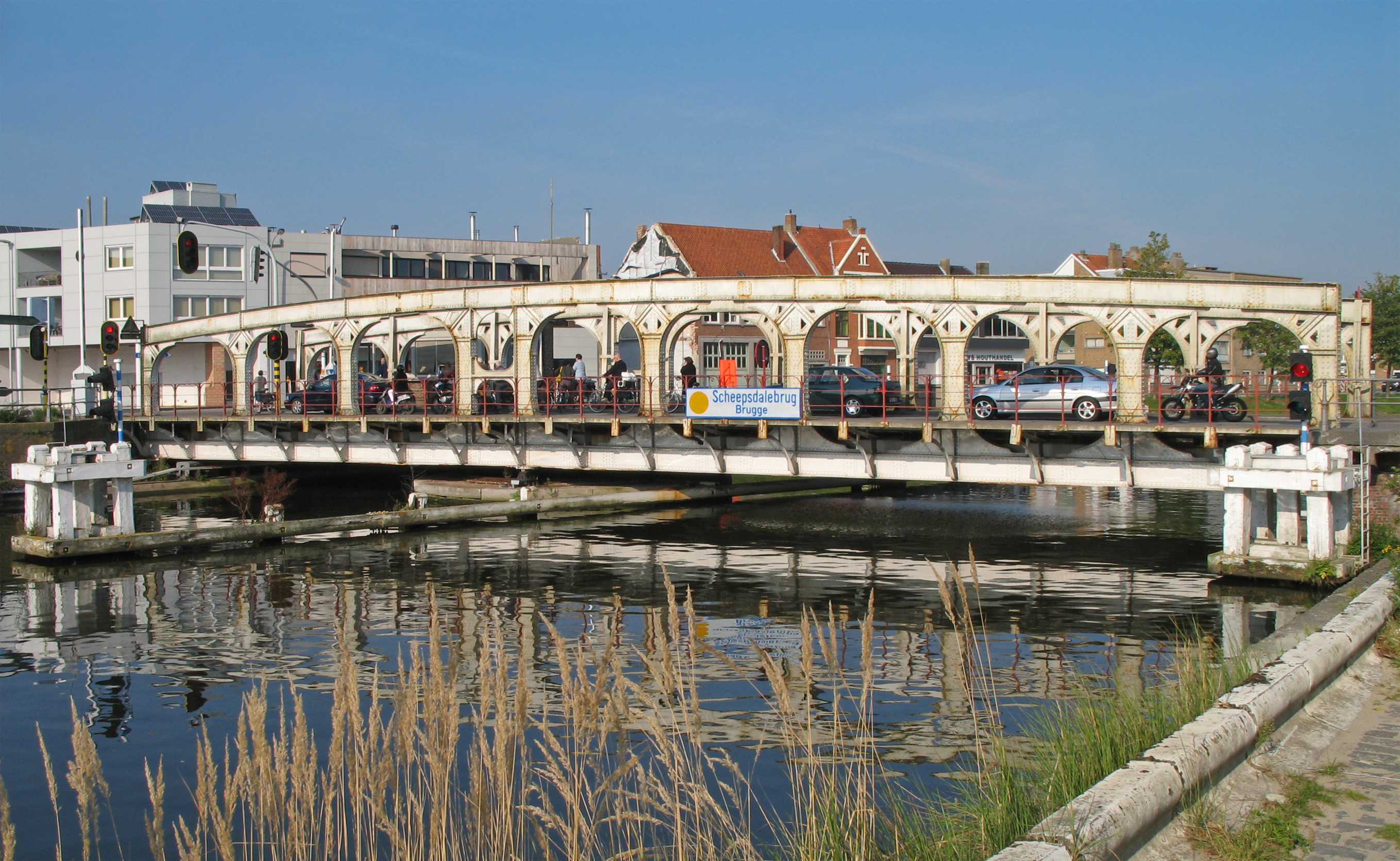 Bruges (Belgium): the former Scheepsdale bridge (demolished 2009)